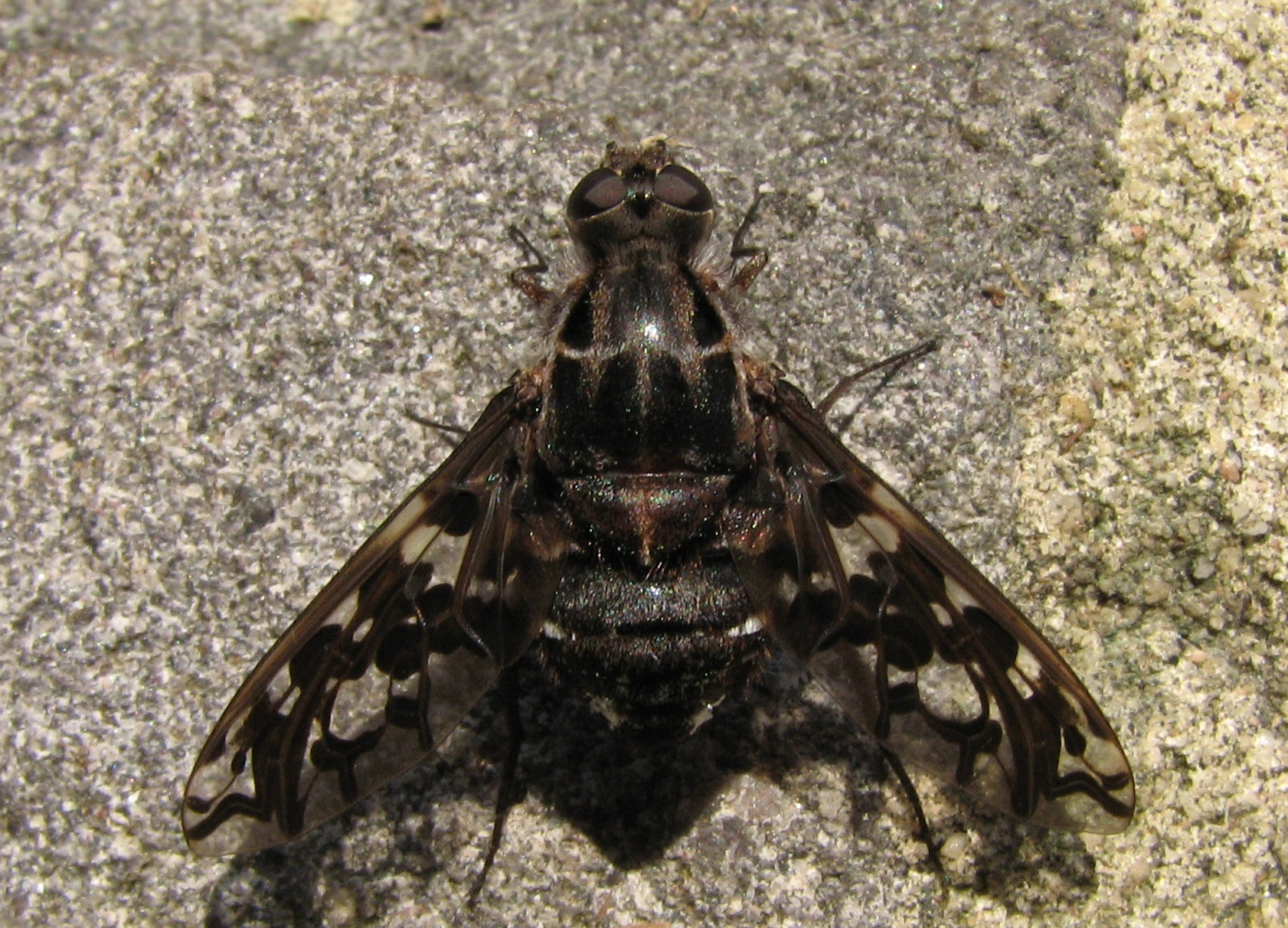 Tiger beefly, Xenox tigrinus. Churchville Nature Center, Bucks County, Pennsylvania, USA.